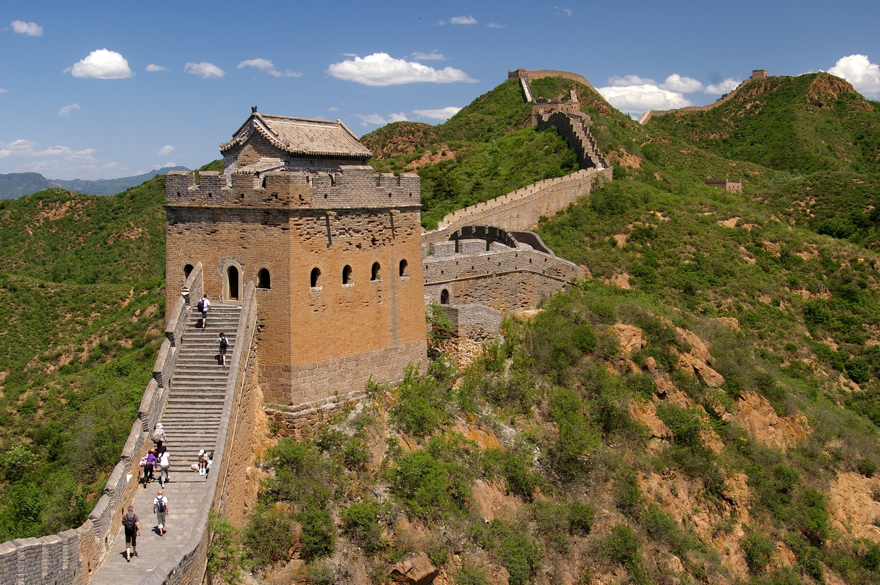 Great Wall of China near Jinshanling